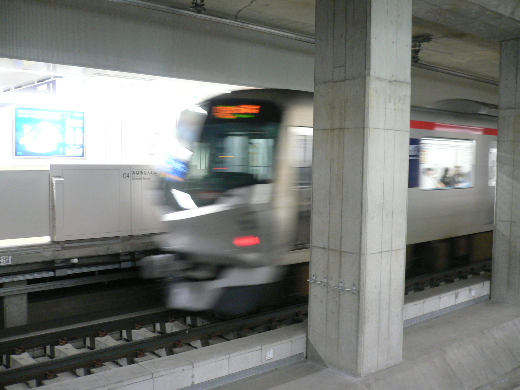 Minami senju Station (南千住駅), Arakawa W, Tokyo M.